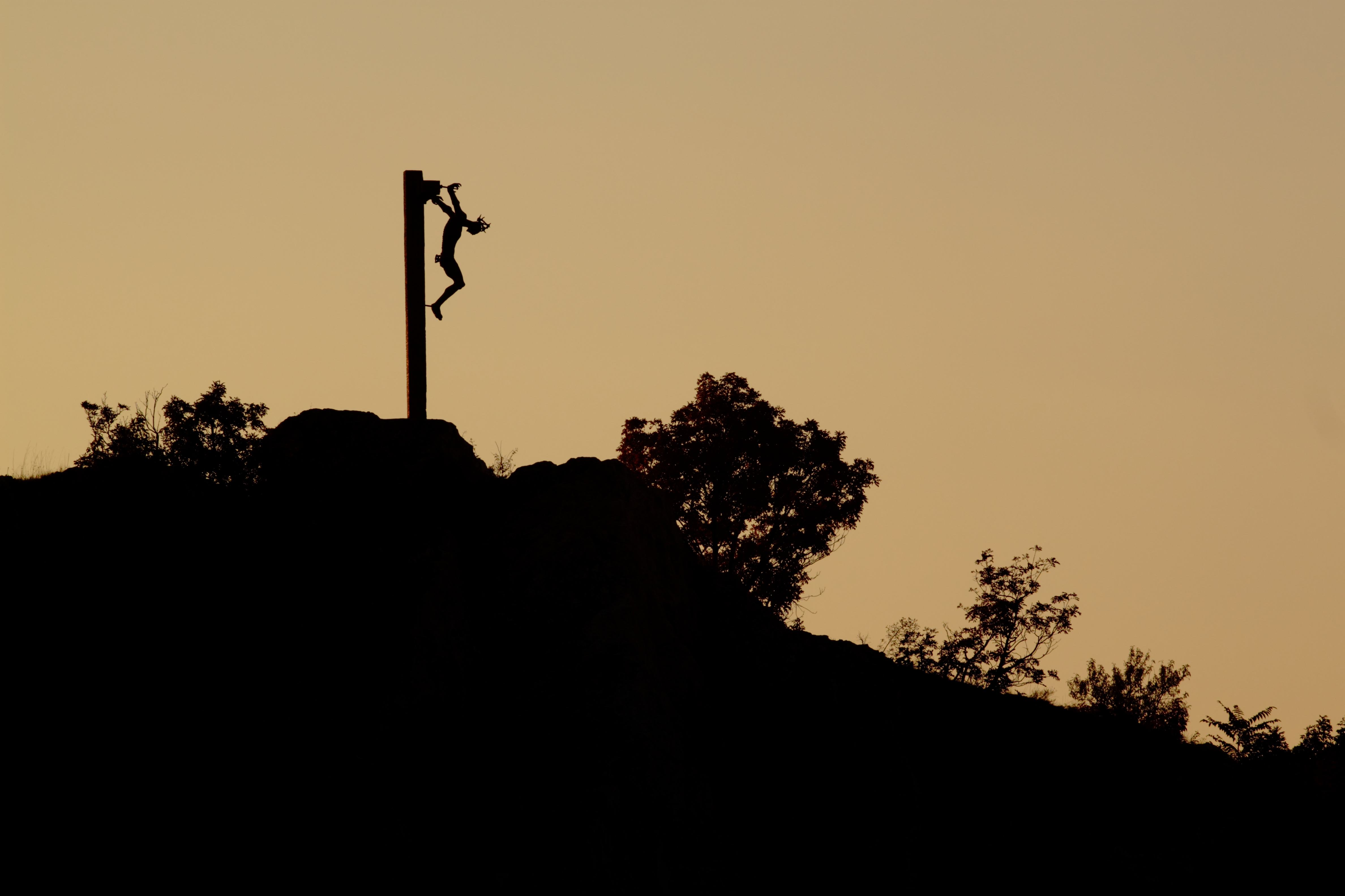 The cross at Tettye, Pécs, Hungary